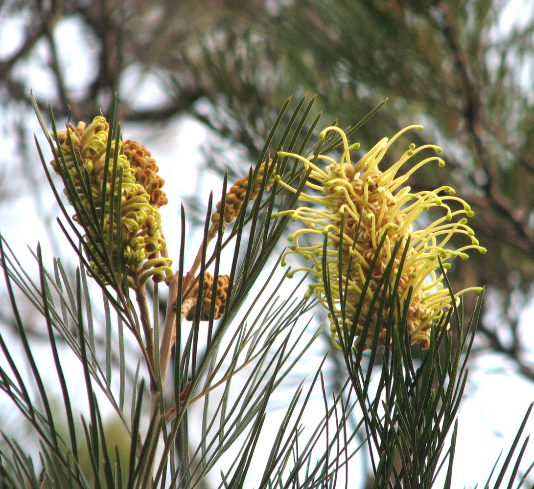 Grevillea whiteana, Maranoa Gardens, Balwyn, Victoria, Australia